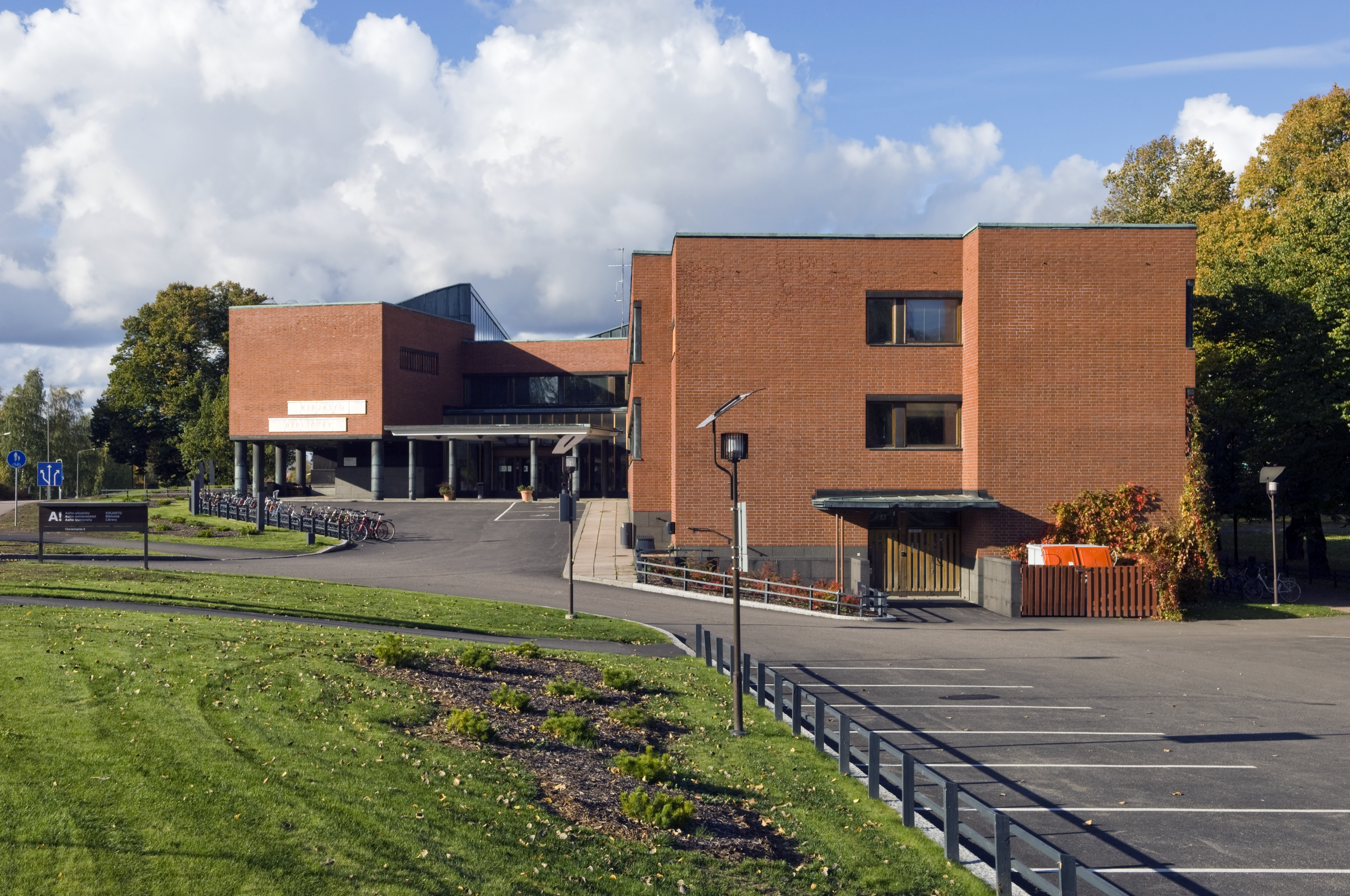 Aalto University Otaniemi Campus Library in Espoo, Finland. The library was designed by architect Alvar Aalto in 1964 and built from 1965 to 1969.